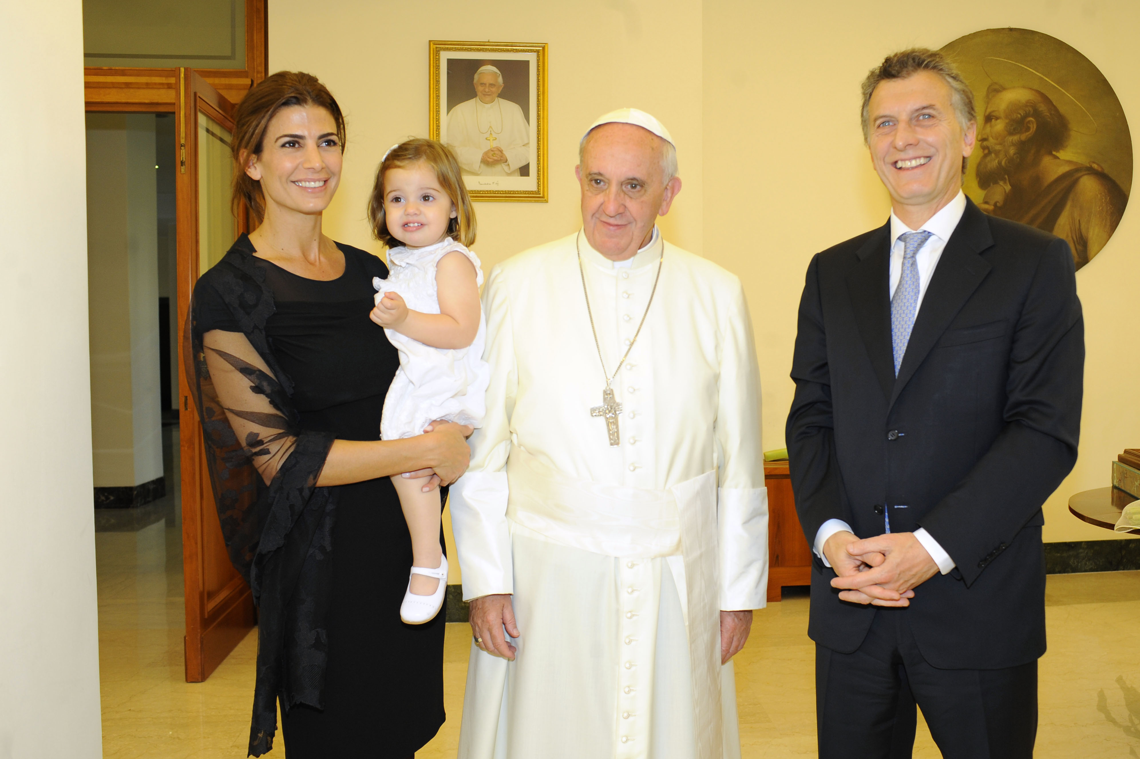 Mauricio Macri, his wife Juliana and daughter Antonia, during a meeting with Pope Francis at Vatican City.